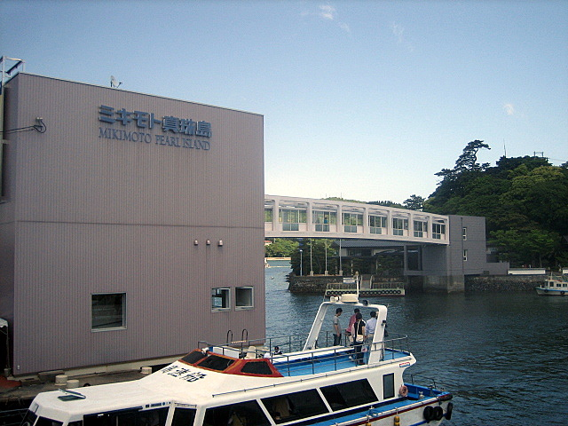 Mikimoto Pearl Island in Toba, Mie, Japan. See Mikimoto Kōkichi for the history of Japanese cultured pearls.